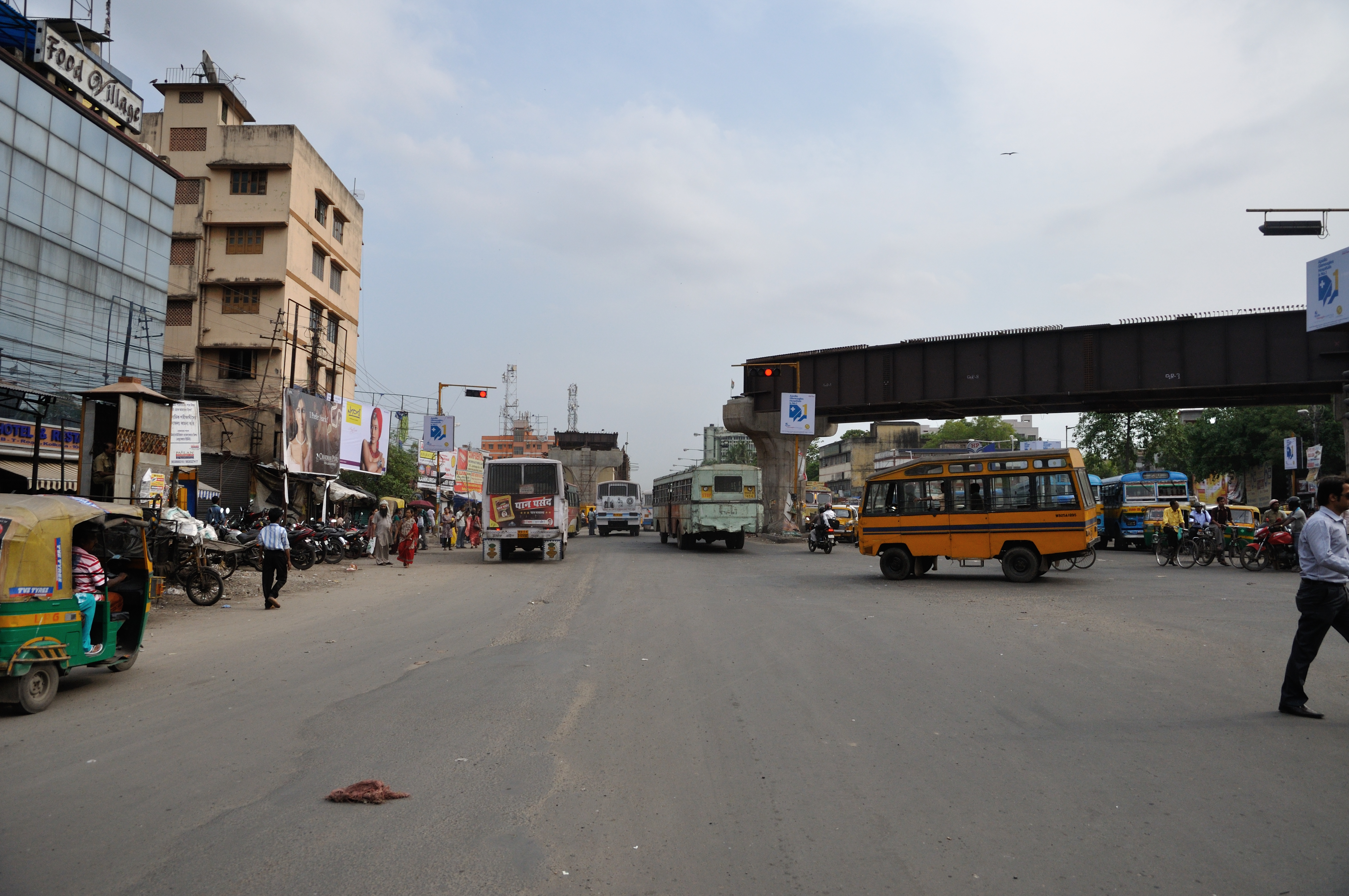 Dunlop Crossing in Baranagar, Kolkata.